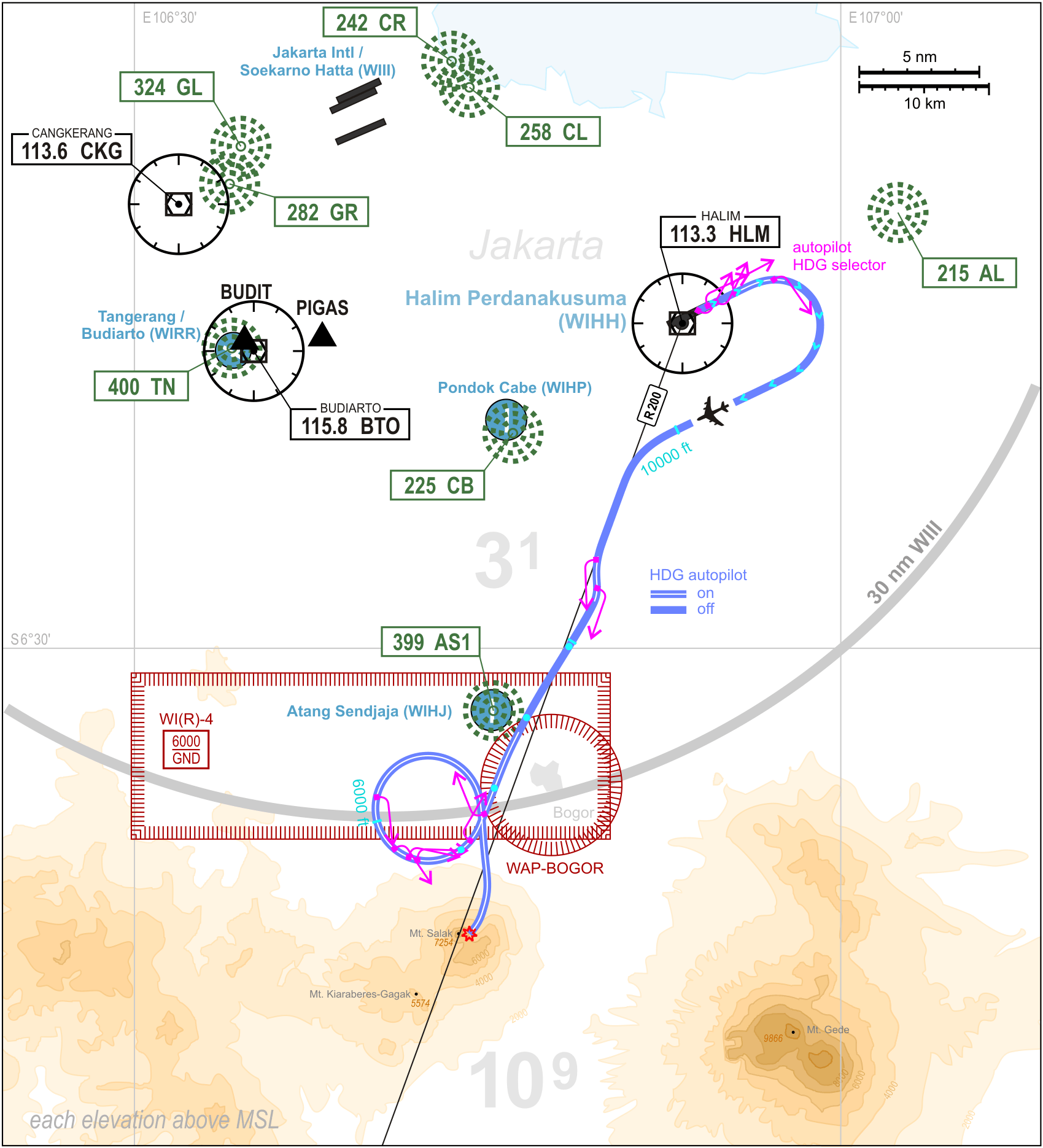 Schematic chart about fatal flight route of Sukhoi Superjet 100 (RRJ-95B) airplane on May 9th, 2012, at Mount Salak, Indonesia.